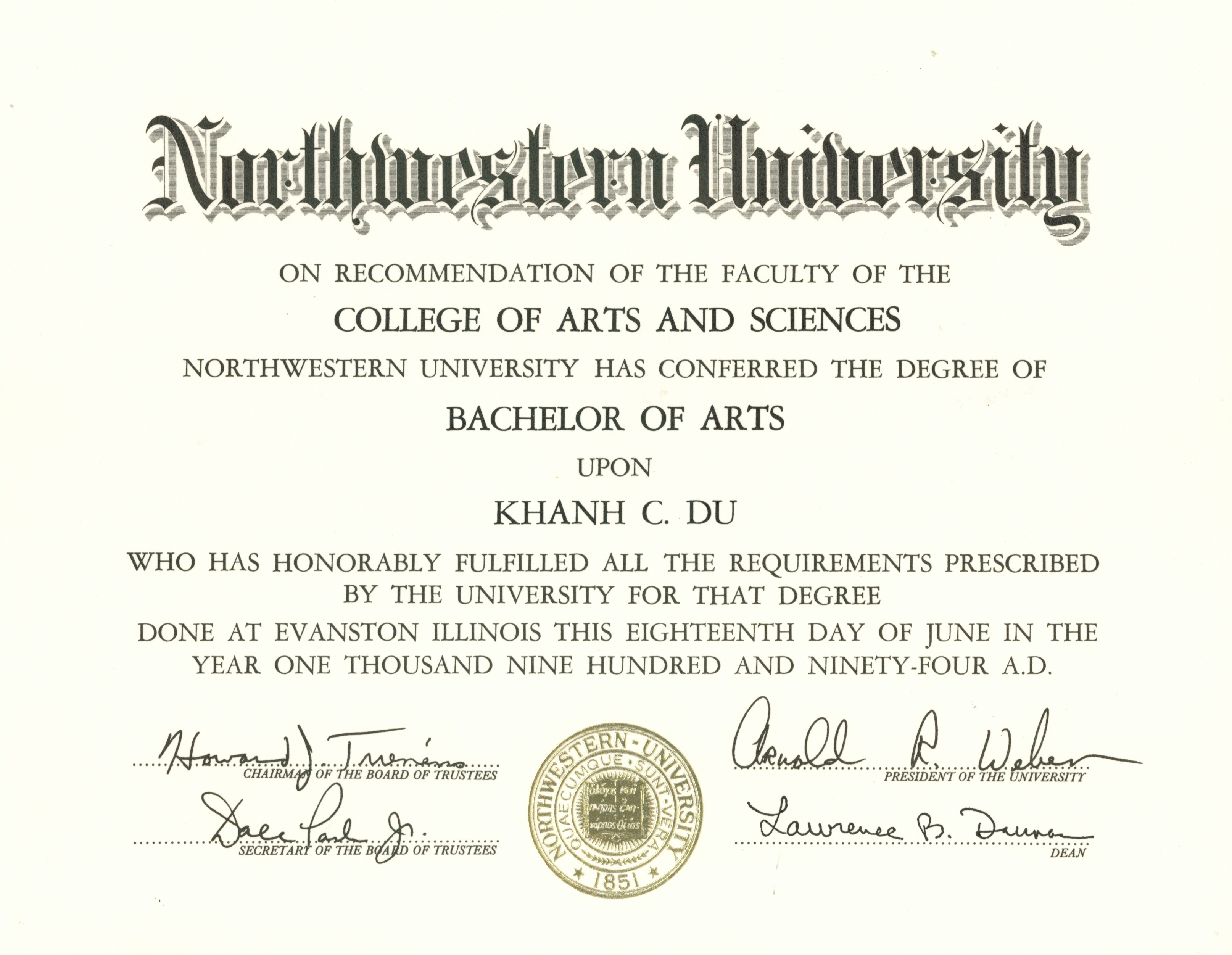 ArchDuke Kenneth Khanh Du's BA in Psychology